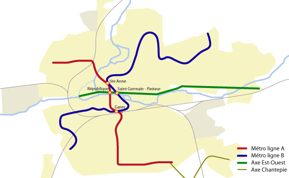 Metro and busway transport map of Rennes, prewiew for 2018